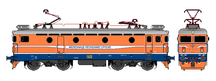 ŽRS 441 series locomotive drawing